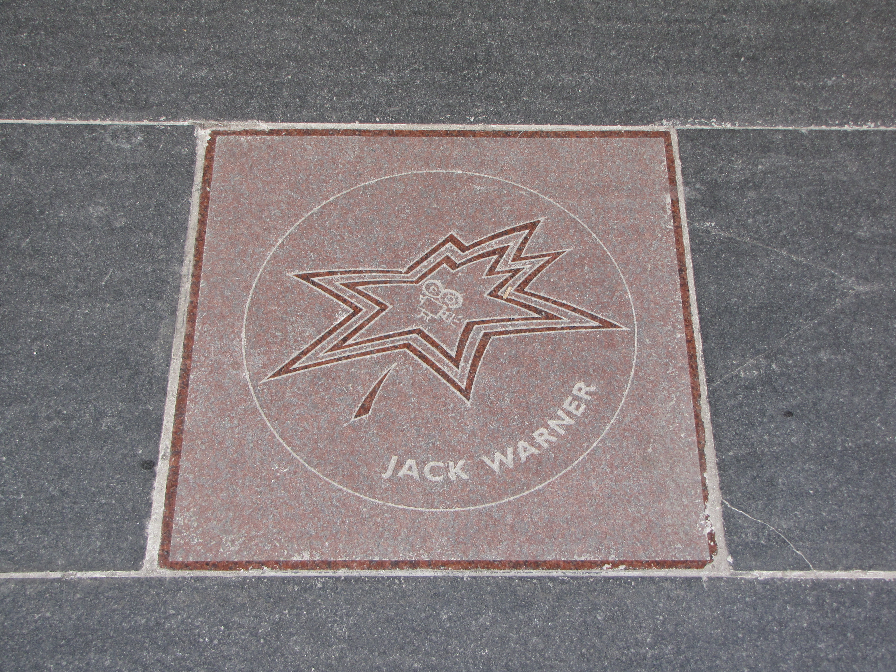 Jack Warner's star on Canada's Walk of Fame